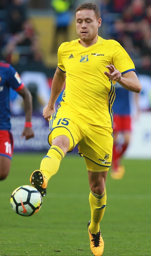 Sverrir Ingi Ingason with FC Rostov in a game against PFC CSKA Moscow.